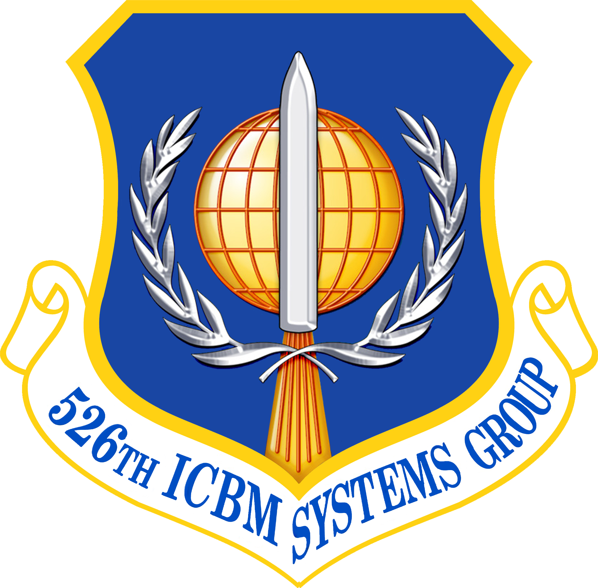 Emblem of the United States Air Force 526th ICBM Systems Group